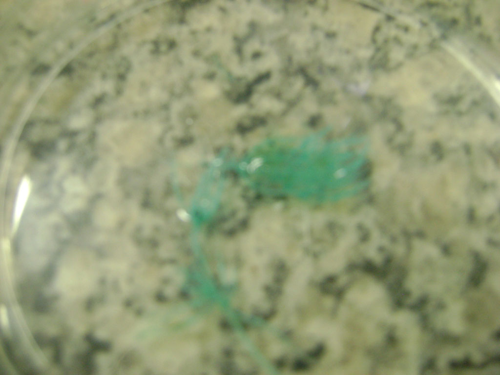 gender charales, phylum Charophyta